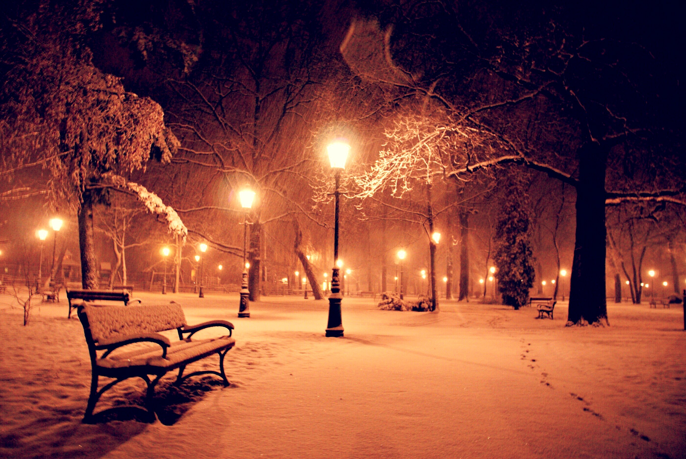 Winter in city park in Świebodzice